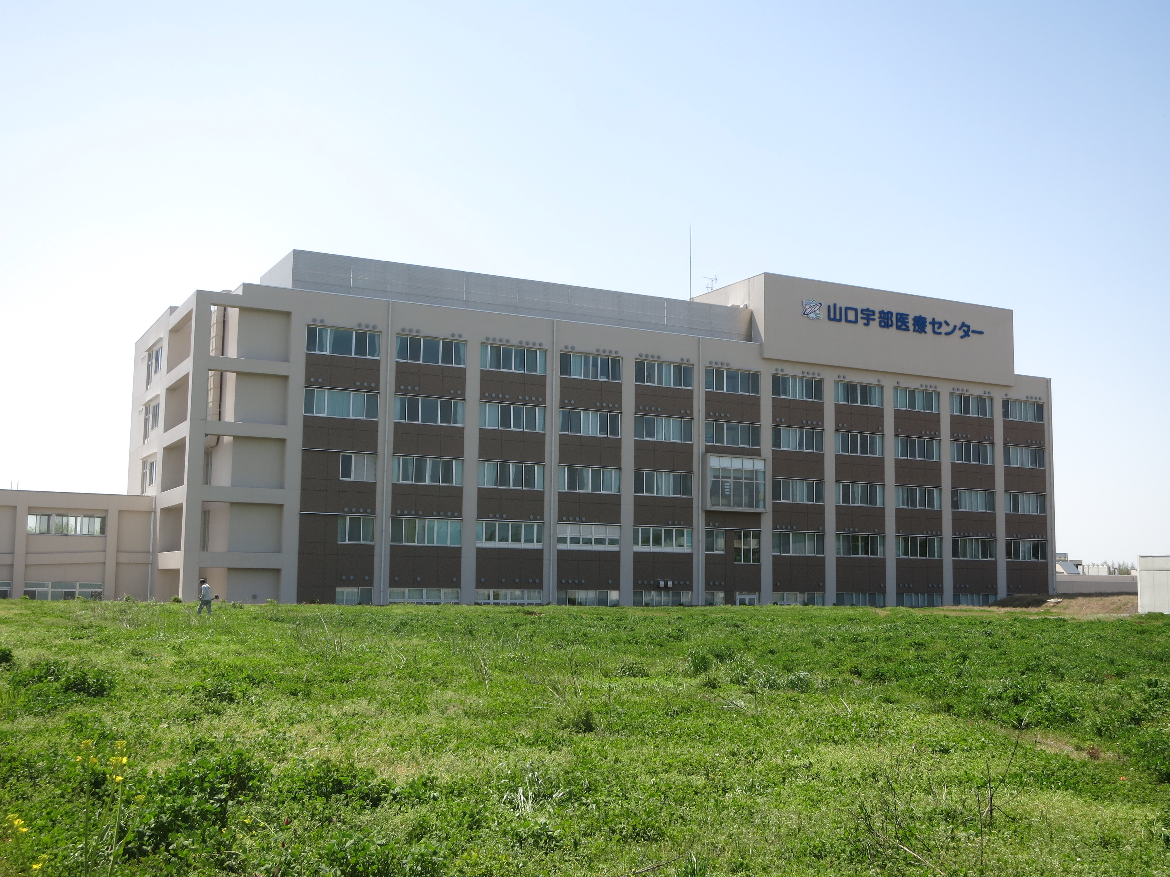 National Hospital Organization Yamaguchi-Ube_Medical Center